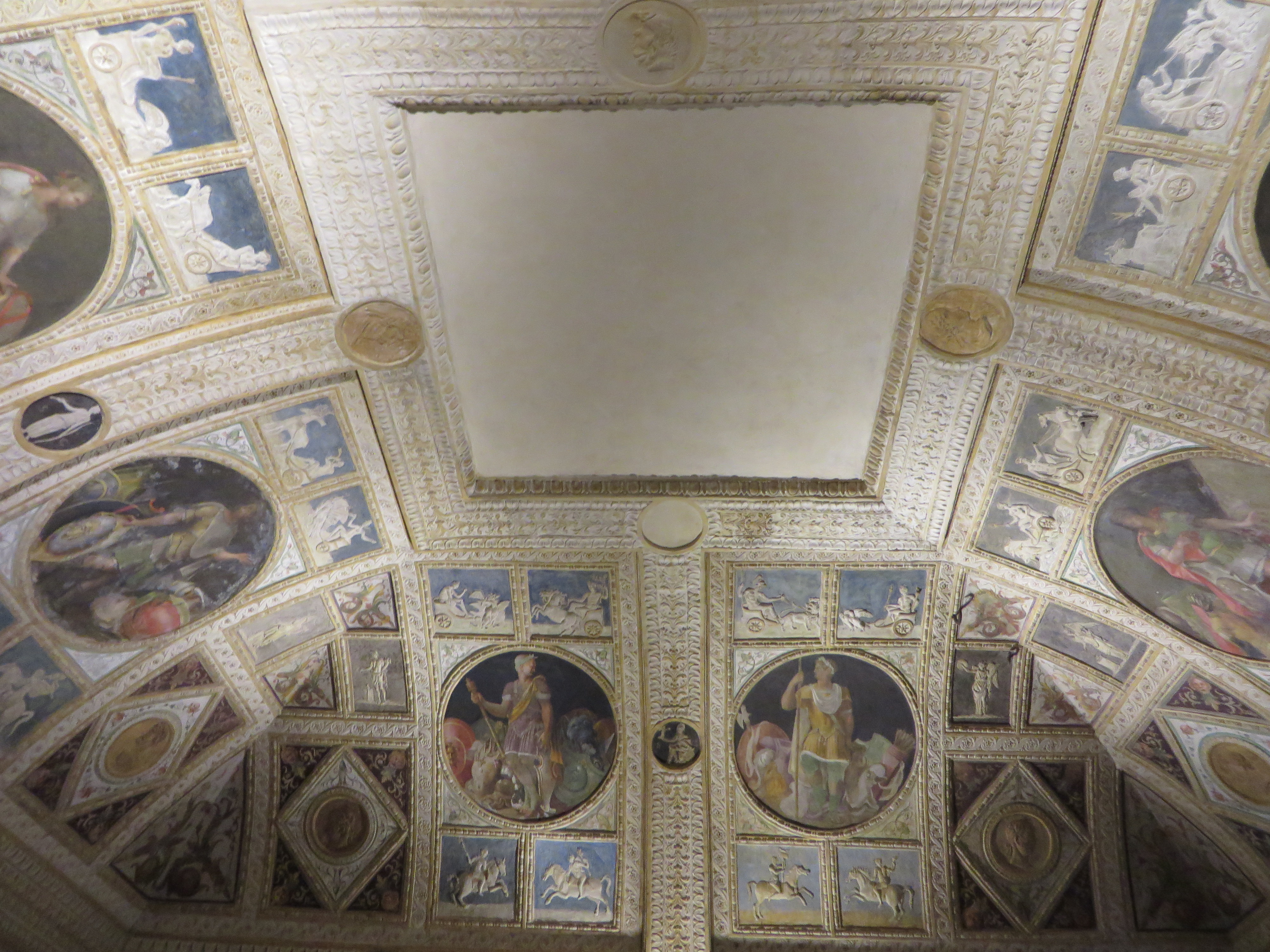 Rossi Castle VI